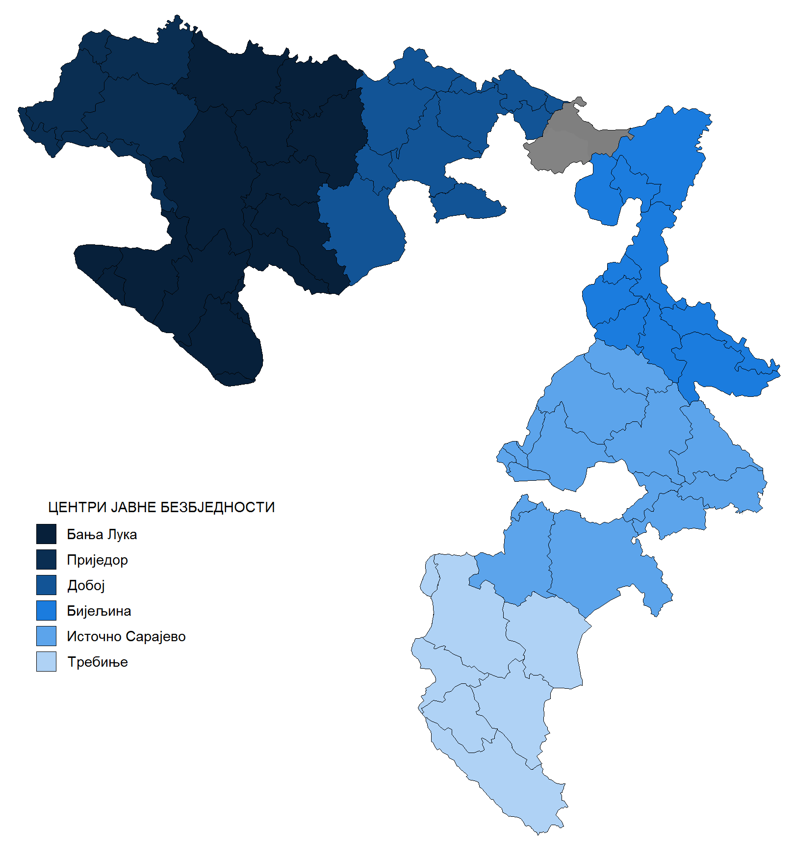 Map of Centers of Public Security of the Police of Republika Srpska. This type of administration and territorial division in police was before 2017. Transliterations and translations: Центри јавне безбједности/Centri javne bezbjednosti - Centers of Public Security Бања Лука - Banja Luka Приједор - Prijedor Добој - Doboj Бијељина - Bijeljina Источно Сарајево - Istočno Sarajevo Требиње - Trebinje